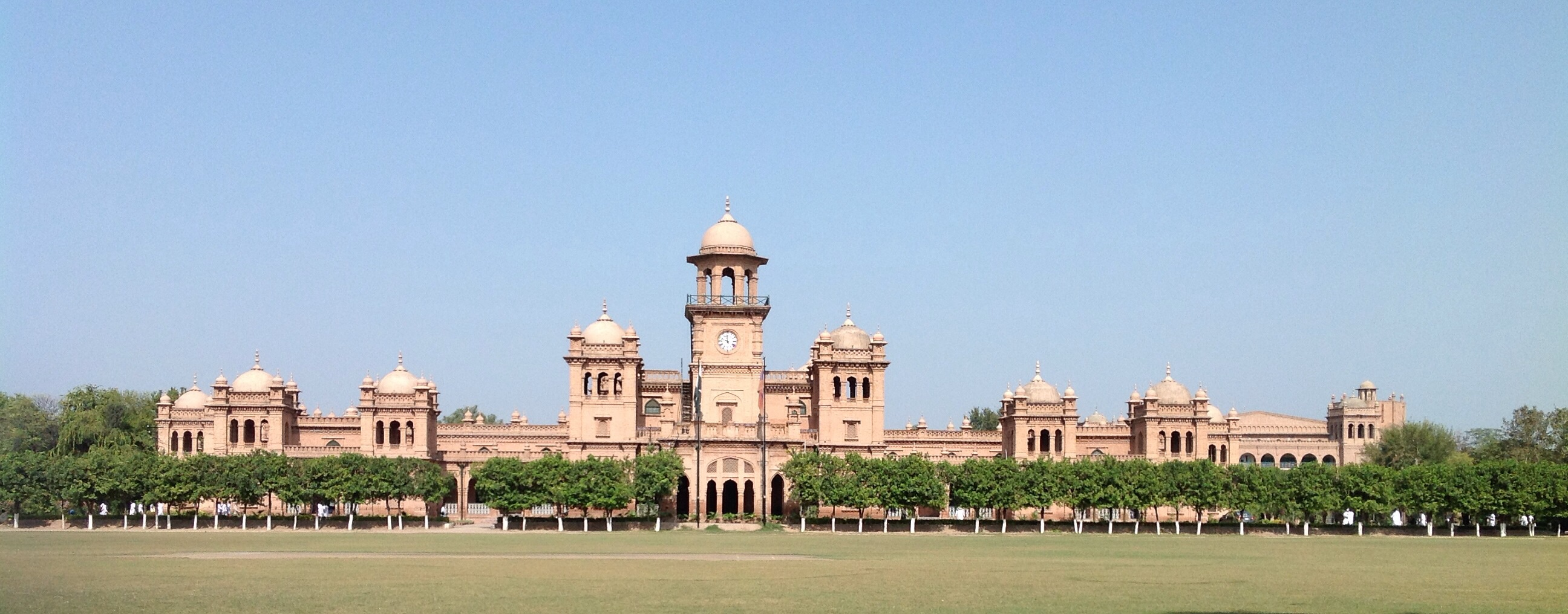 Islamia College